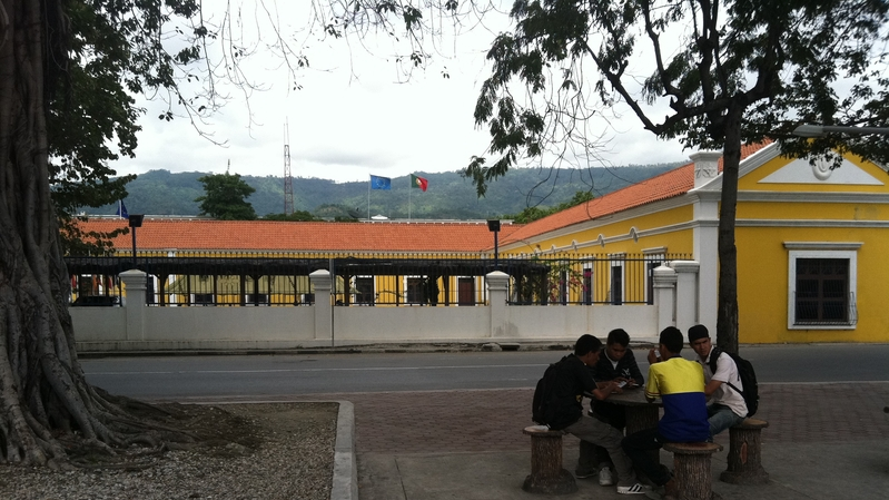 Europe house in Dili